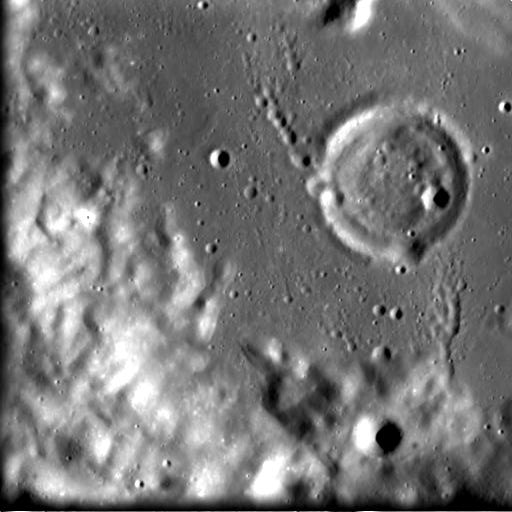 This image, taken by the advanced Moon Imaging Experiment (AMIE) on board ESA’s SMART-1 spacecraft, shows one quarter of crater Hopmann - an impact structure about 88 kilometres in diameter. AMIE obtained this image on 25 January 2006 from a distance of about 840 kilometres from the surface, with a ground resolution of 76 metres per pixel. The imaged area, not visible from Earth because it is located on the far side of the Moon, is positioned at latitude of 51.7º South and longitude 159.2º East. It covers a square of about 39 kilometres per side.